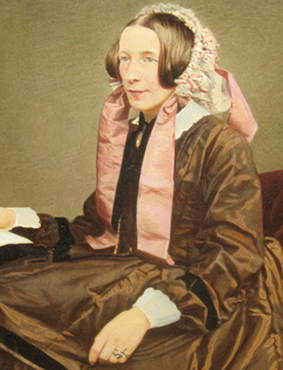 Ann Dudin Brown (1822-1917), miniature from Quuen Mary, Univ of London Archives